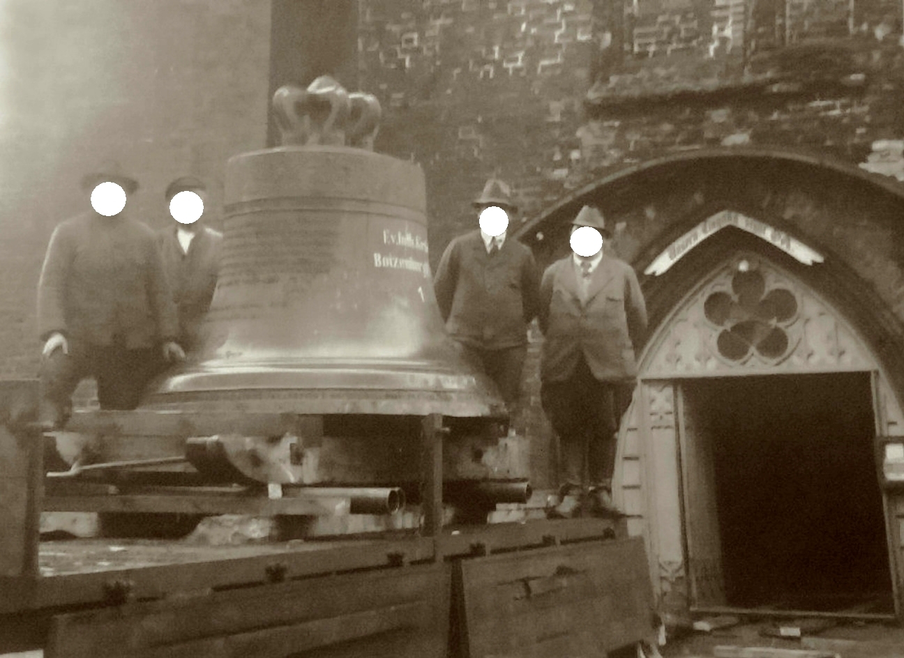 Church bells boizenburg (german) 1942